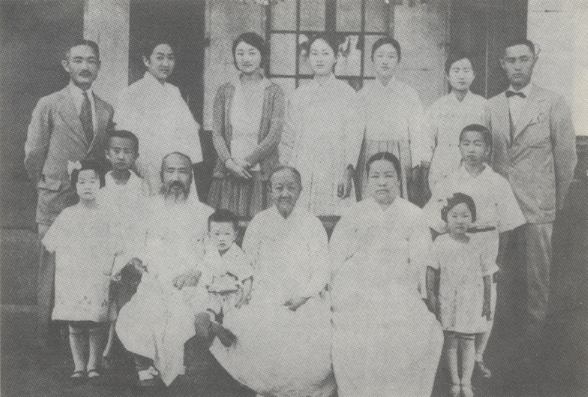 Yun Chi-ho's mother and wife, 12 childrens